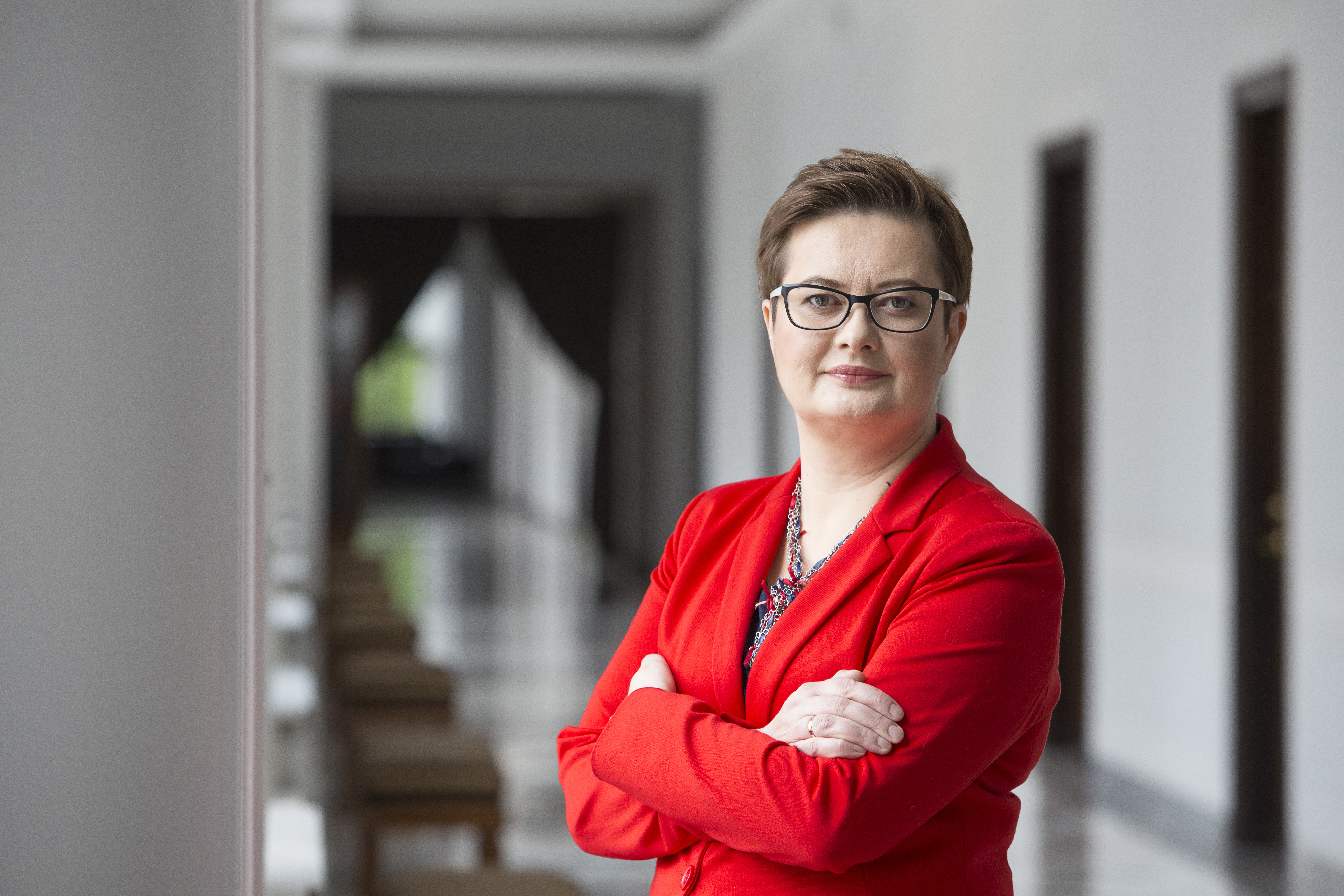 Katarzyna Lubnauer - Polish MP